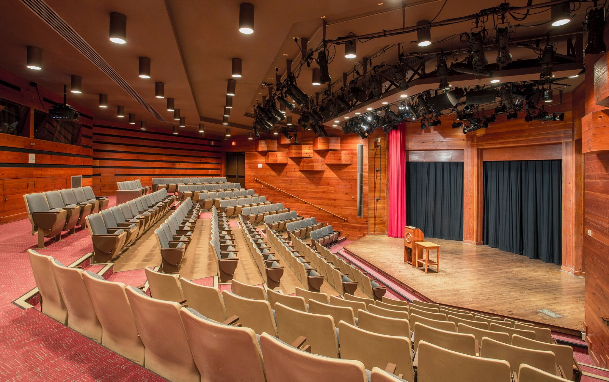 The seating and stage of the George Ignatieff Theater at Trinity College, Toronto.